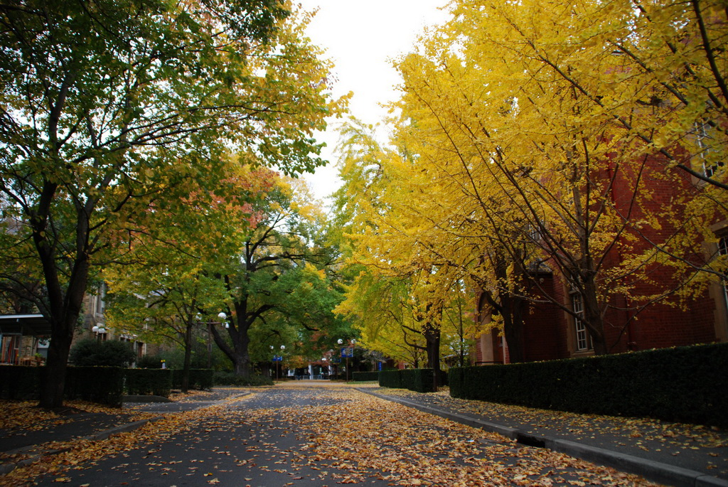 Autumn foliage at The University of Melbourne, Victoria, Australia.